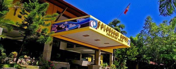 The main entrance of the Balanghai Hotel and Convention Center